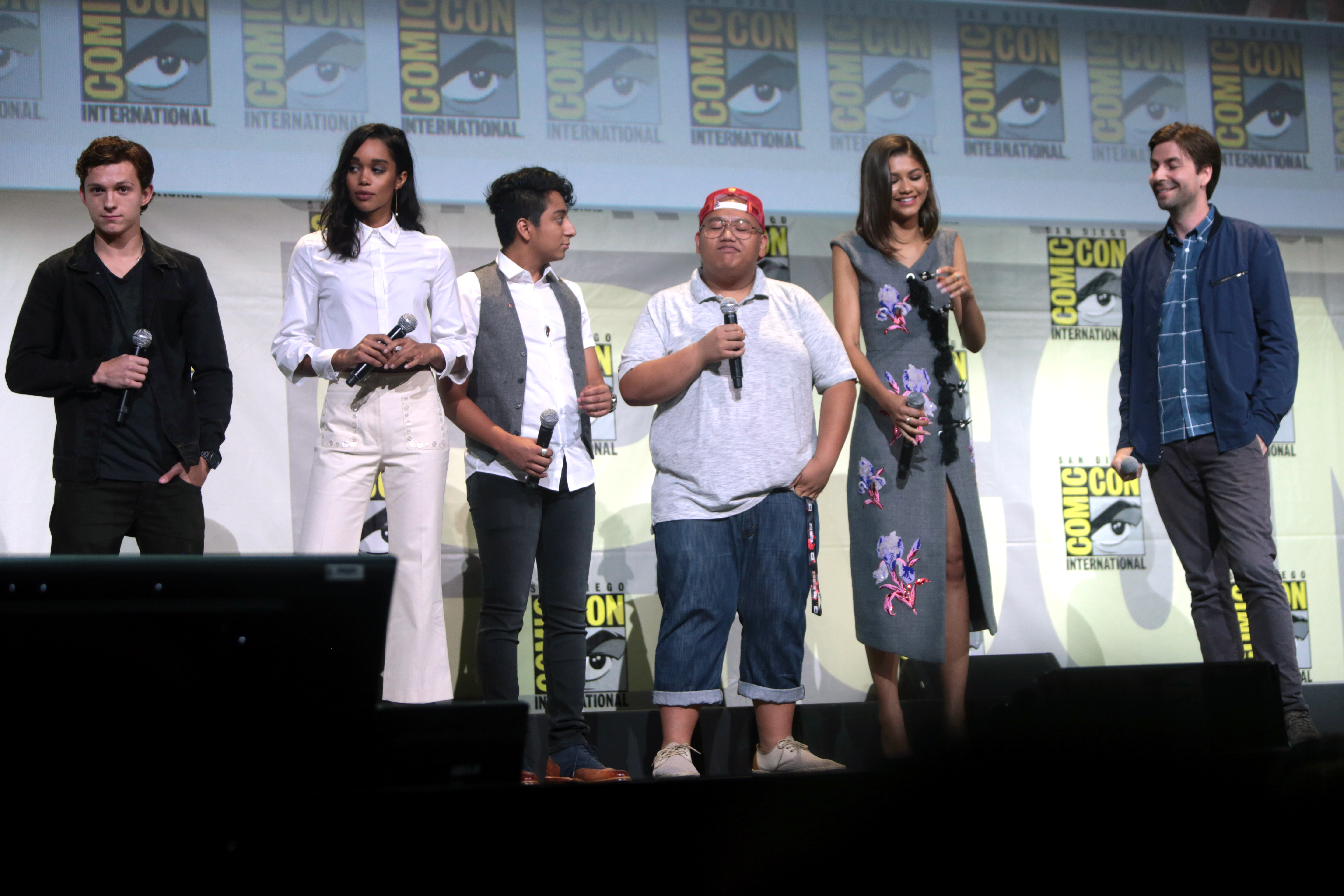 Tom Holland, Laura Harrier, Tony Revolori, Jacob Batalon, Zendaya and Jon Watts speaking at the 2016 San Diego Comic Con International, for Spider-Man: Homecoming, at the San Diego Convention Center in San Diego, California.